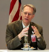 Cropped version of a US State department photo